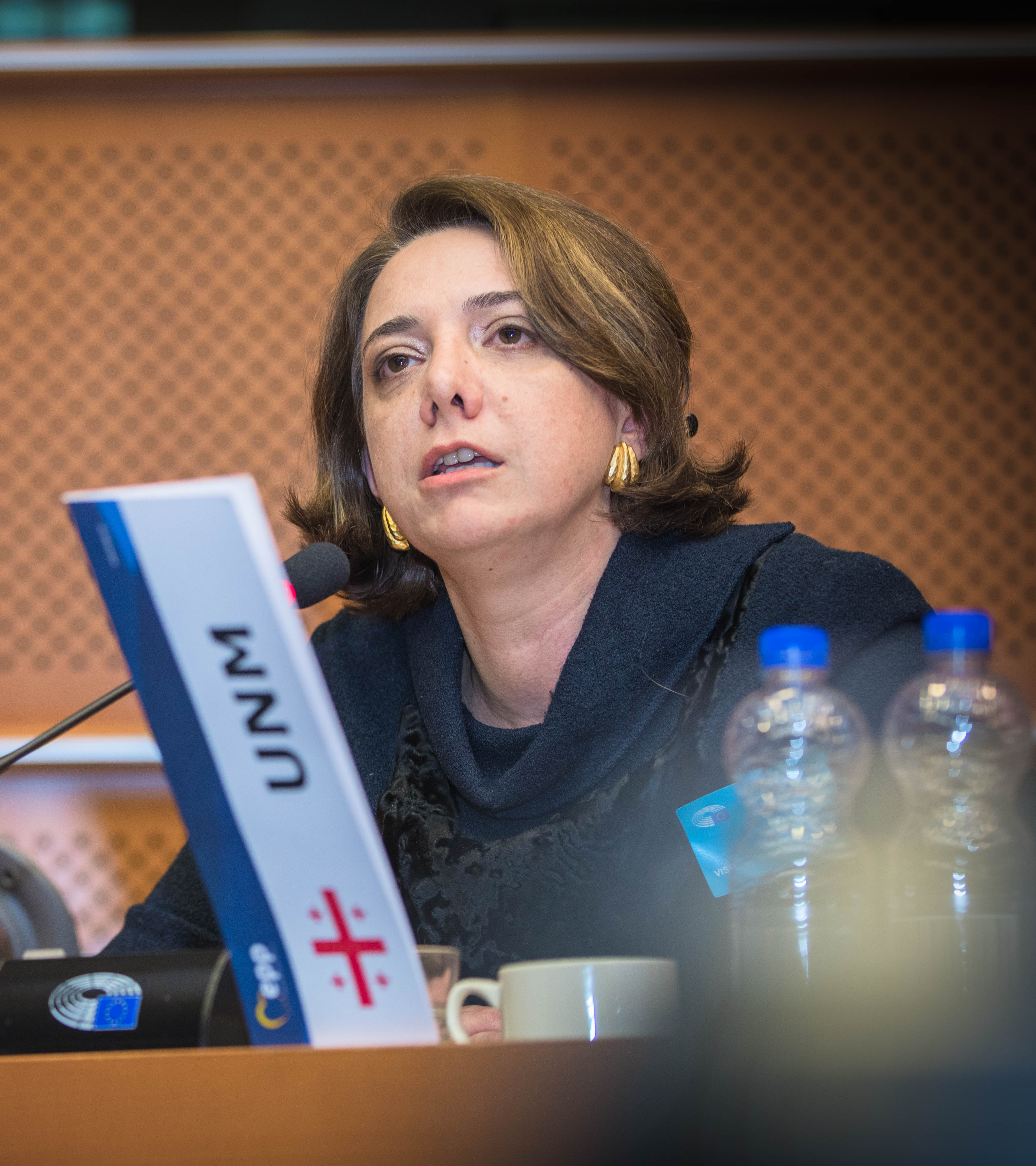 EPP Political Assembly, 4 February 2019